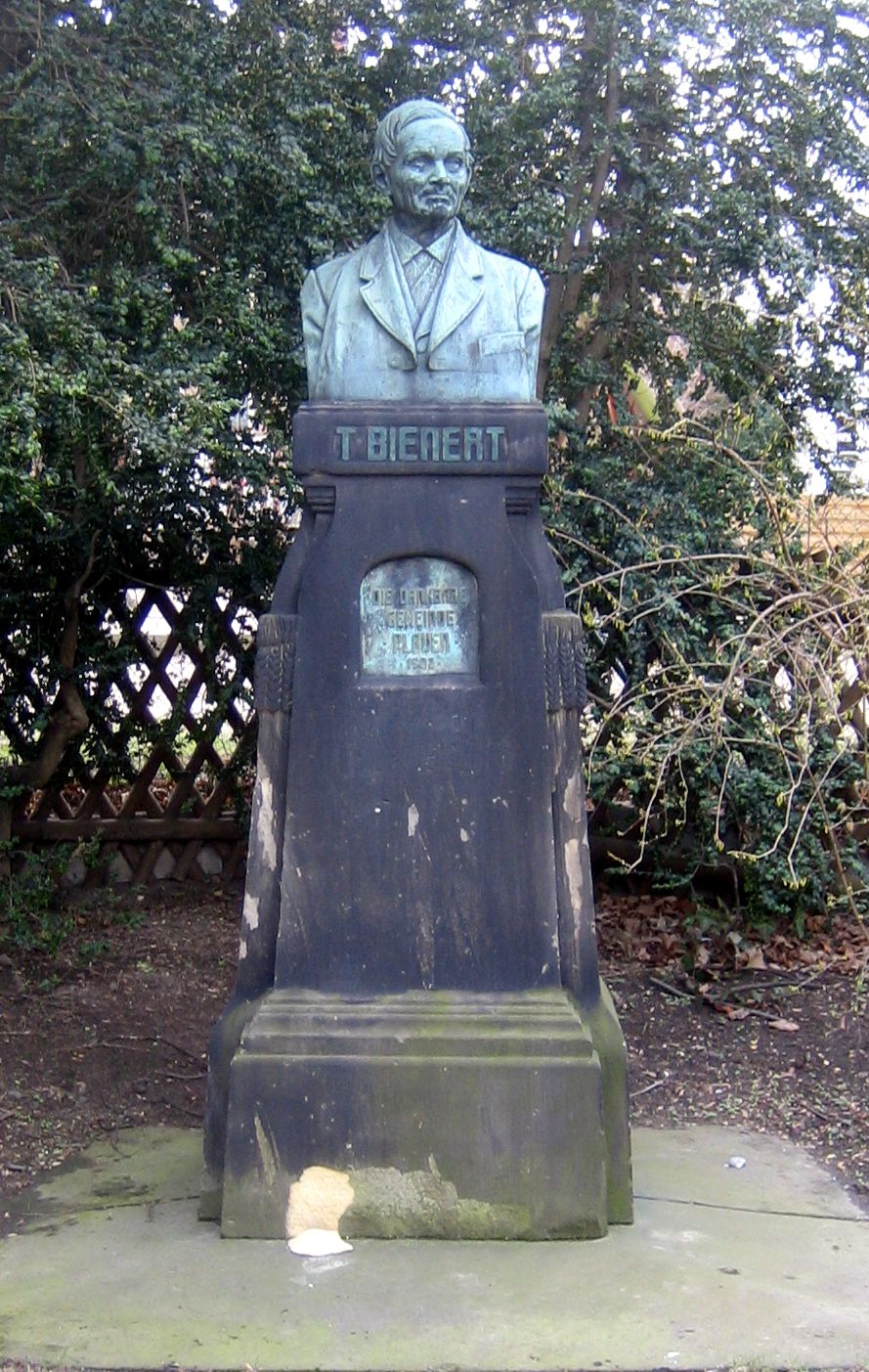 Monument for Gottlieb Traugott Bienert (1813–1894) in Dresden-Plauen (Germany) T. Bienert – The thankful borough of Plauen 1902